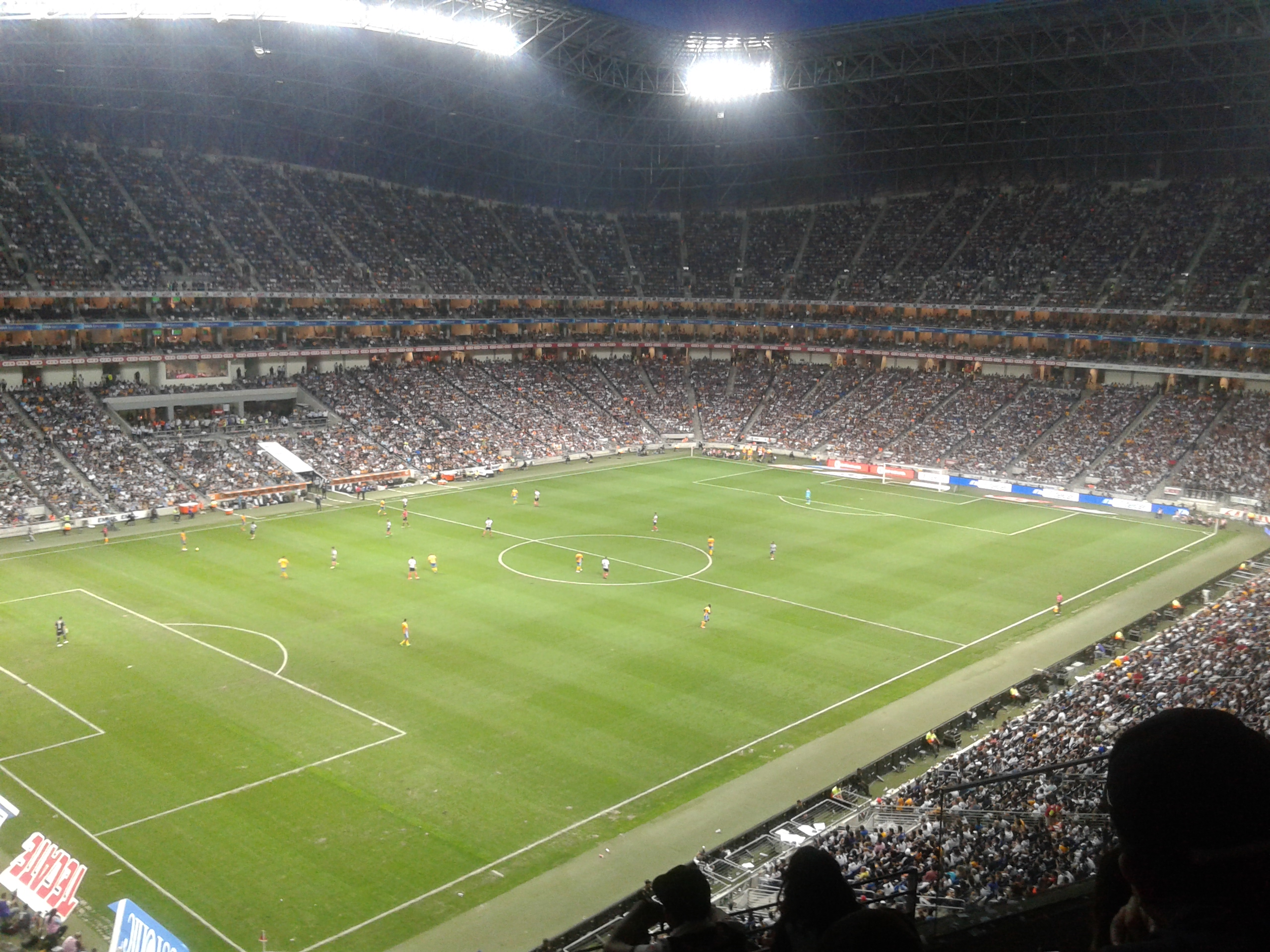 Photograph of the BBVA Bancomer Stadium in the 112 Regio Derby, Tigres vs. Monterrey, in the second match of the quarterfinals. Moments before the second goal of André-Pierre Gignac.